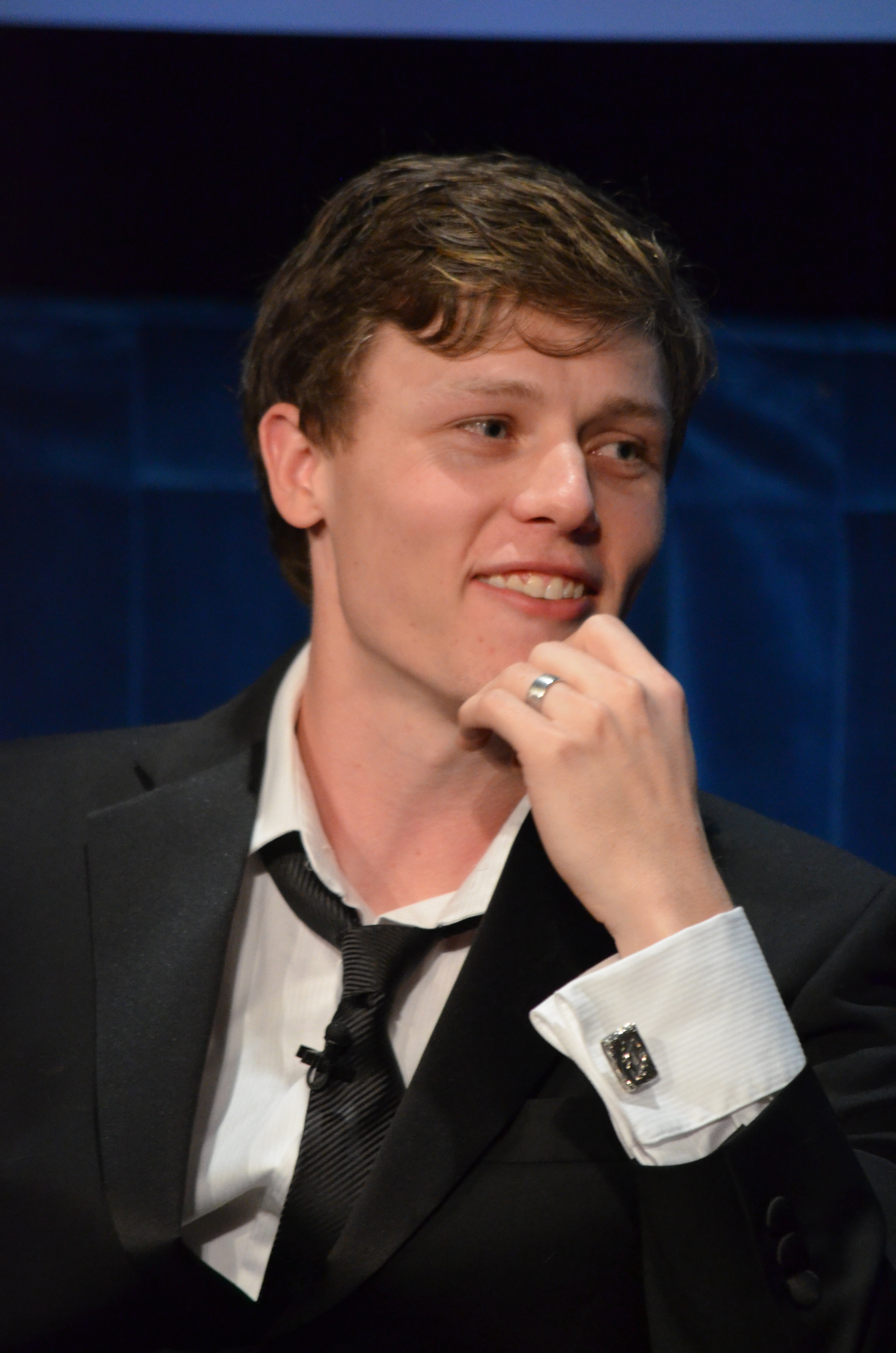 Nick Eversman at Missing Paley Center in Los Angeles (2012)